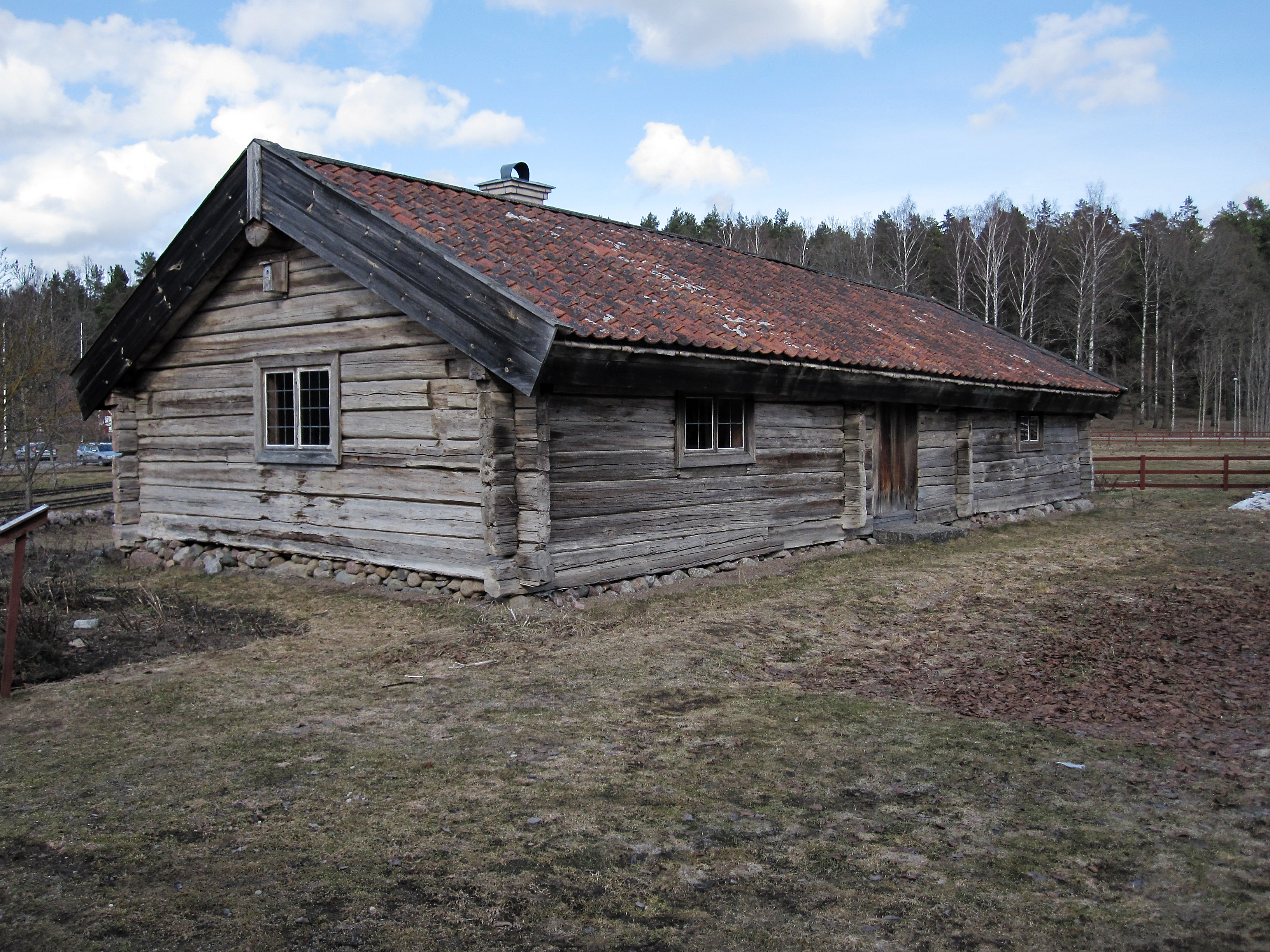 Östra Torp, at Valla, Linköping, Sweden. Old house, Construction wood has been dated as 1661.